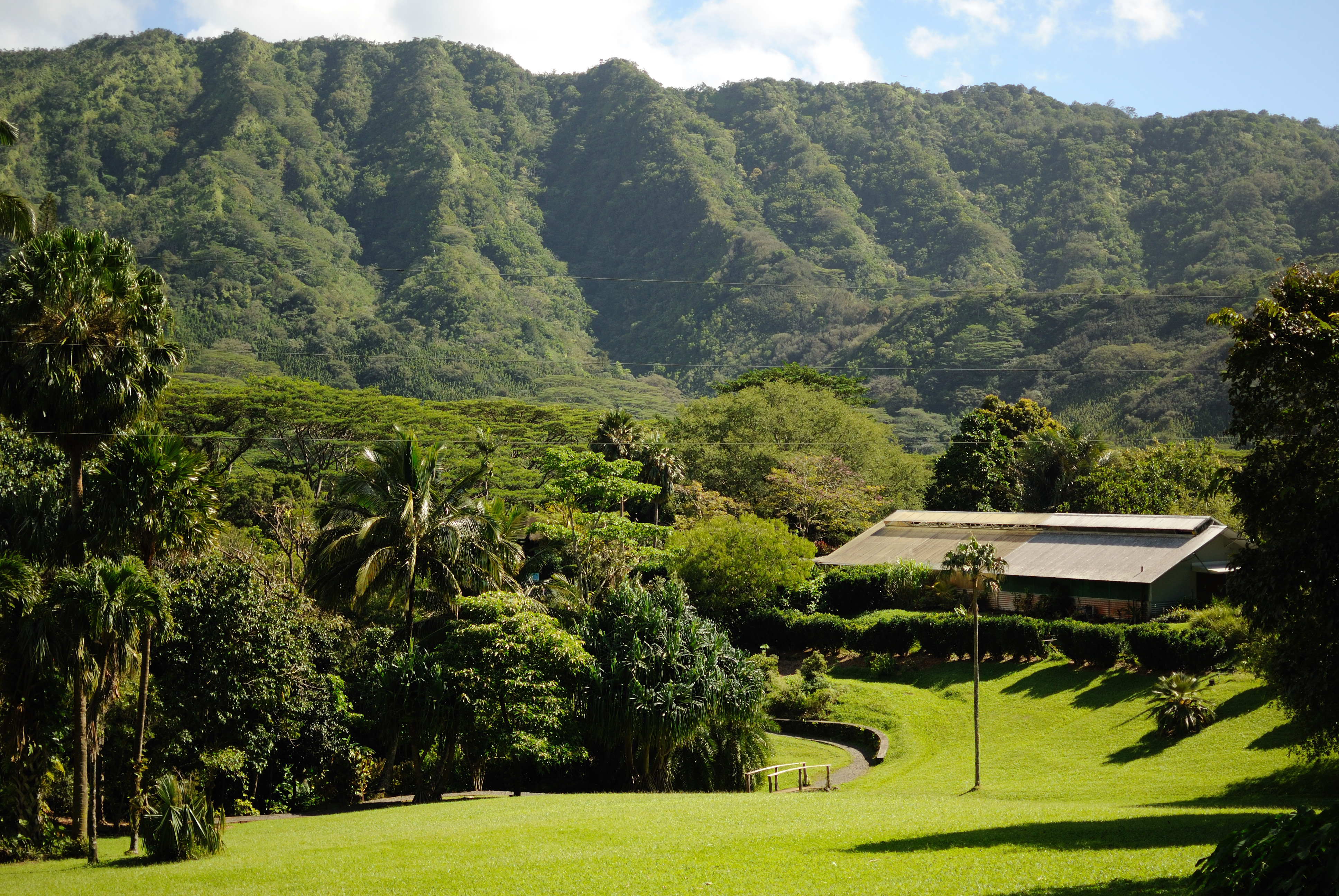 Beautiful view on a sunny December day.